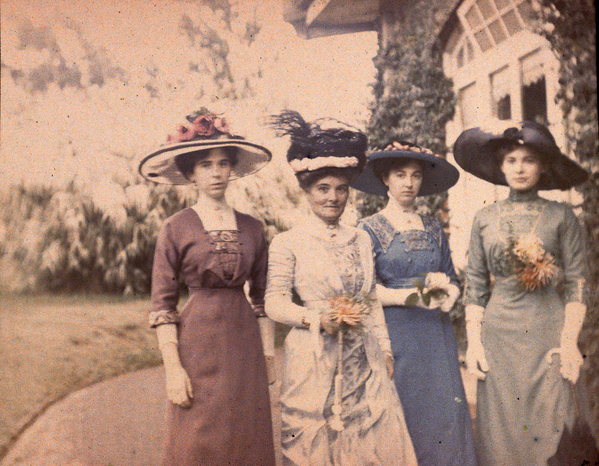 Mary Gullick, Zoe Gullick, Marjory Gullick, Chloe Gullick - outside Altoncourt, Killara? c.1909 from Gullick family, c.1909-1922 / photographed by William Applegate Gullick. Wife and daughters of William Applegate Gullick Format: Autochrome glass plate, colour Notes: Find out more about the people and places of New South Wales at Discover Collections - People & Places From the collections of the Mitchell Library, State Library of New South Wales Information about photographic collections of the State Library of New South Wales: .au/search/SimpleSearch.aspx Persistent url: .au/item/itemDetailPaged.aspx?itemID=442696